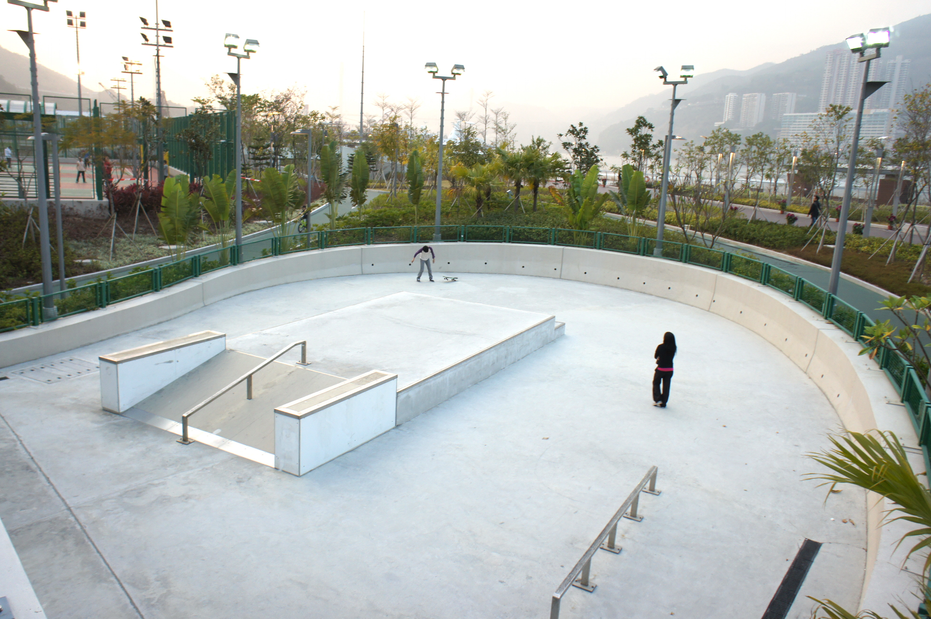 Skateboard arena in the Tsing Yi Northeast Park, Tsing Yi, Hong Kong.